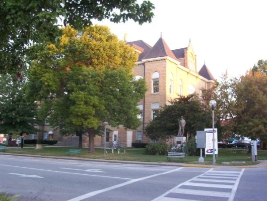 Adair County Courthouse, Kirksville, Missouri